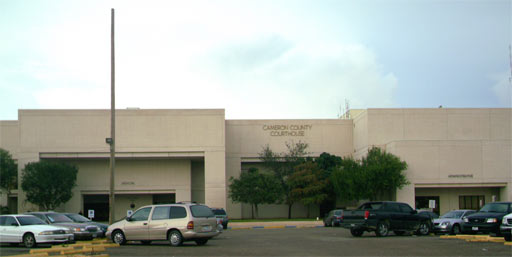 This is a picture of the current Cameron County Courthouse on 964 E. Harrison St in Brownsville, Texas, United States.